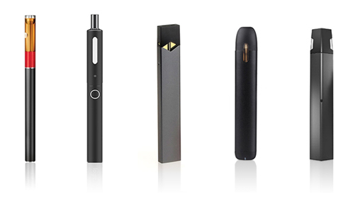 An e-cigarette uses an e-liquid that may contain nicotine (typically derived from the tobacco plant), glycerin, propylene glycol, flavorings, and other ingredients. The device has an electric heat source that heats the e-liquid to create an aerosol that the user inhales.